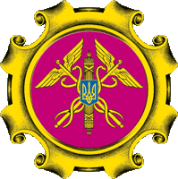 Emblem of the Antimonopoly Committee of Ukraine